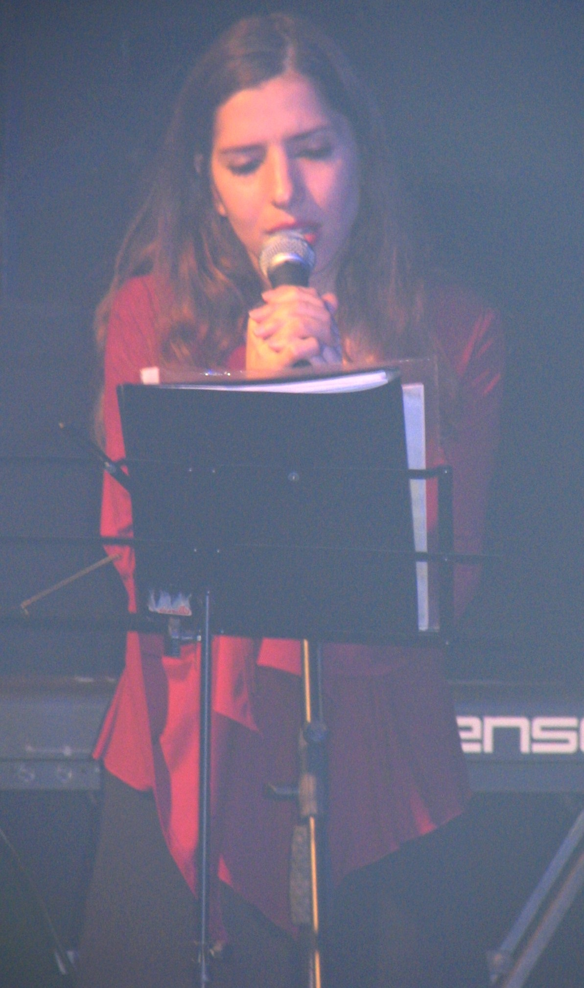 Yael Kraus at Klipa Therater, with Panic Ensemble, 2005.